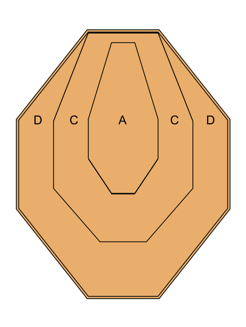 The IPSC Target used for all disciplines within the International Practical Shooting Confederation